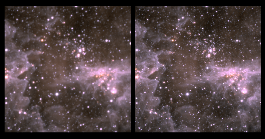 This image shows processed images of the star-forming region IC 1590. Both use images from the Wide-field Infrared Survey Explorer (WISE) at 3.4, 4.6 Micron wavelength. The left image are Allwise Atlas images and the right image is the same region with unWISE coadds. This work makes use of unWISE coadds (URL: unwise.me) and WISE atlas images (URL